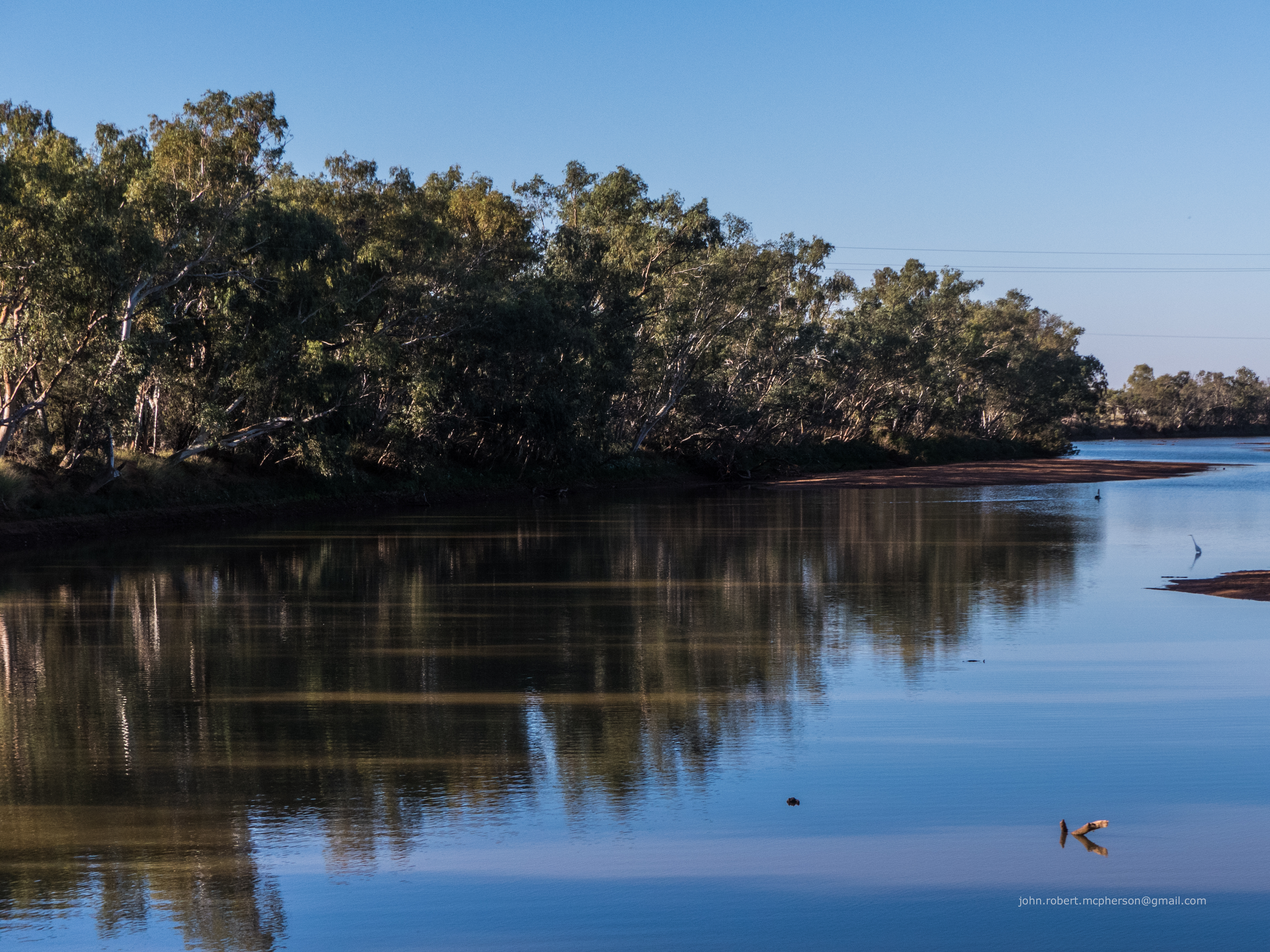 The Burke River is an ephemeral, desert river in central western Queensland. It is part of the Lake Eyre basin. The river was named in memory of explorer Robert O'Hara Burke of the Burke and Wills expedition. The Burke River rises in the Selwyn Range north of Boulia. It flows south past Boulia until it discharges into the Georgina River. As one of the Channel Country rivers it has multiple anabranches on its broad floodplain. Iconic river red gums (Eucalyptus camaldulensis) and coolabah (Eucalyptus coolabah) line the banks, with coolabah also found on the floodplain.